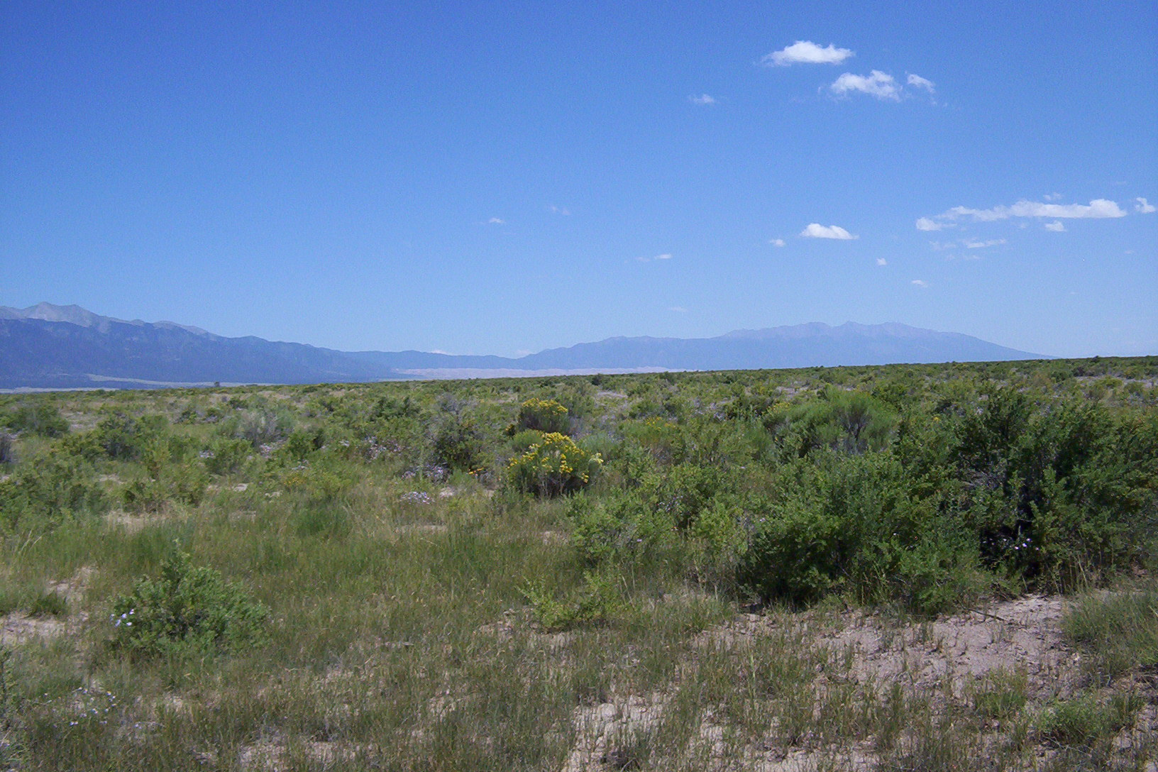 The view southeast from the northwest corner of the Luis Maria Baca Land Grant No. 4, now part of the lands of the Baca National Wildlife Refuge. Located in the San Luis Valley of central-southern Colorado. The image shows rangeland — with Rabbitbrush (Ericameria nauseosa) and Greasewood (Sarcobatus sp.). The Sangre de Cristo Range and the Great Sand Dunes are in the background.